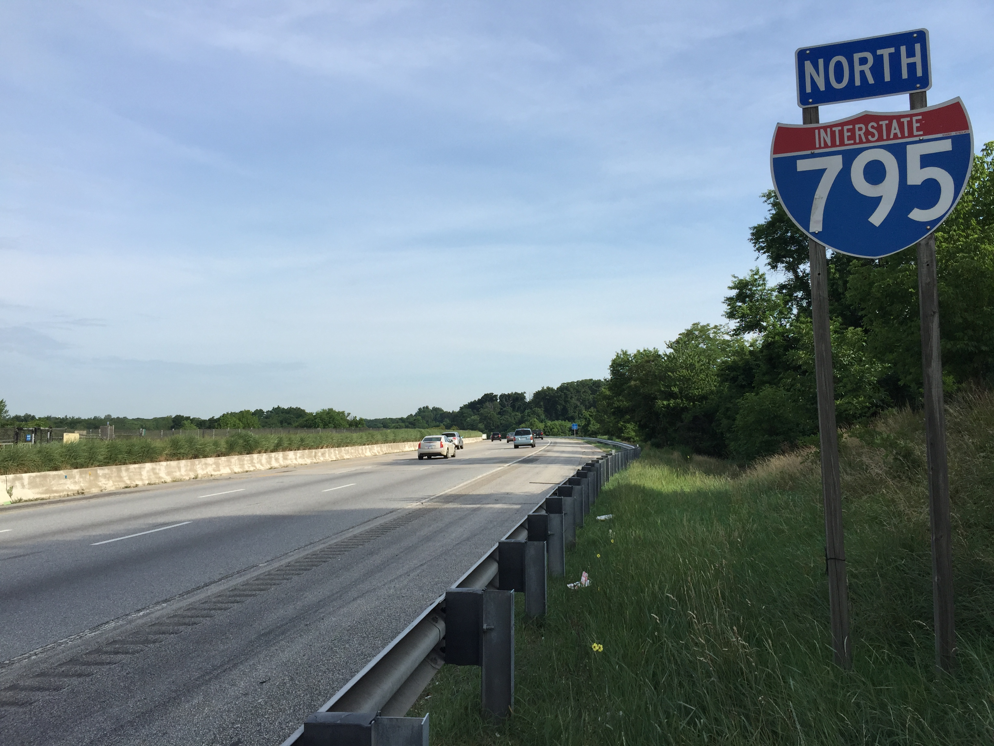 View north along Interstate 795 (Northwest Expressway) just north of Interstate 695 (Baltimore Beltway) in Pikesville, Baltimore County, Maryland